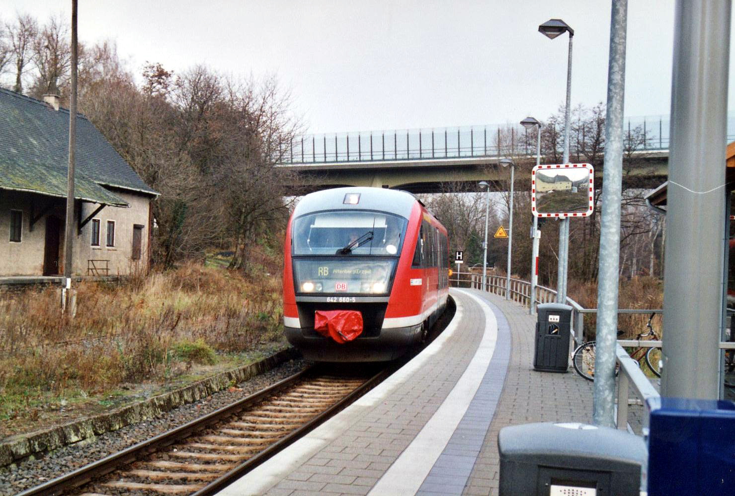 This image shows a multiple unit class 642 of the Müglitztal-railway-line Heidenau - Altenberg during entry the station in Dohna.